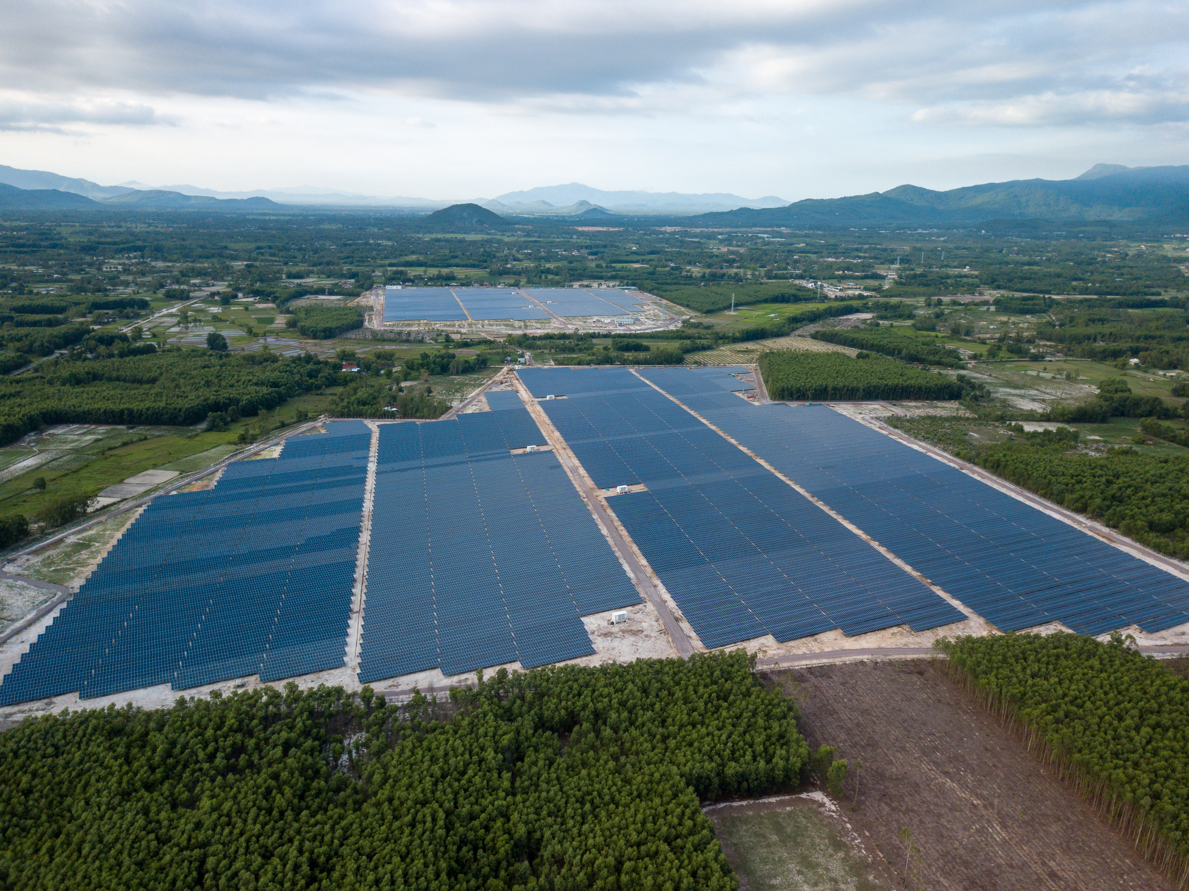 Cat Hiep Solar Power Plant